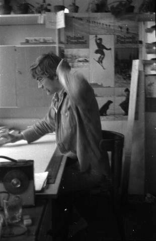 Andras Vikár at BUVATI, Budapest